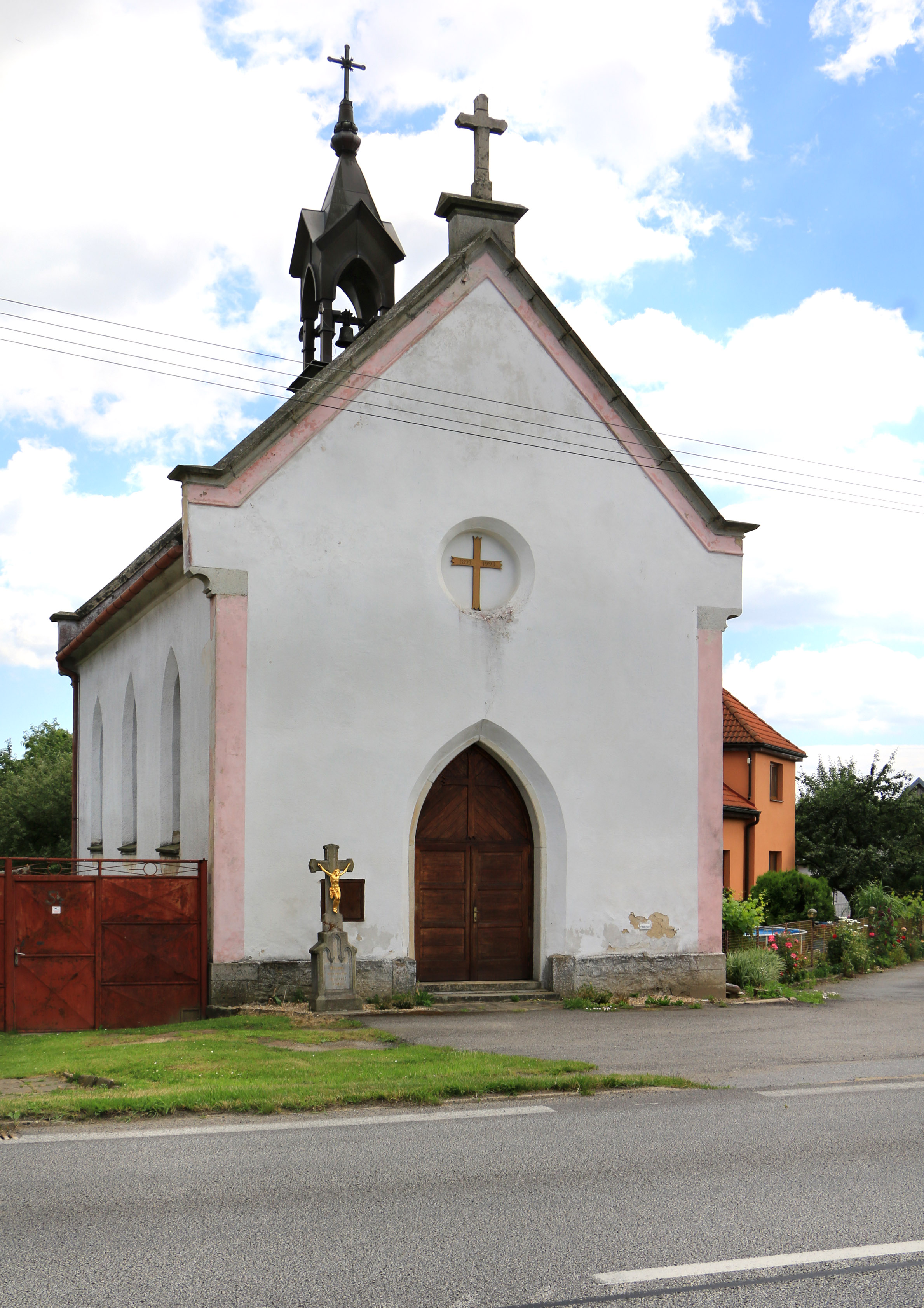 Chapel in Hladov, Czech Republic.